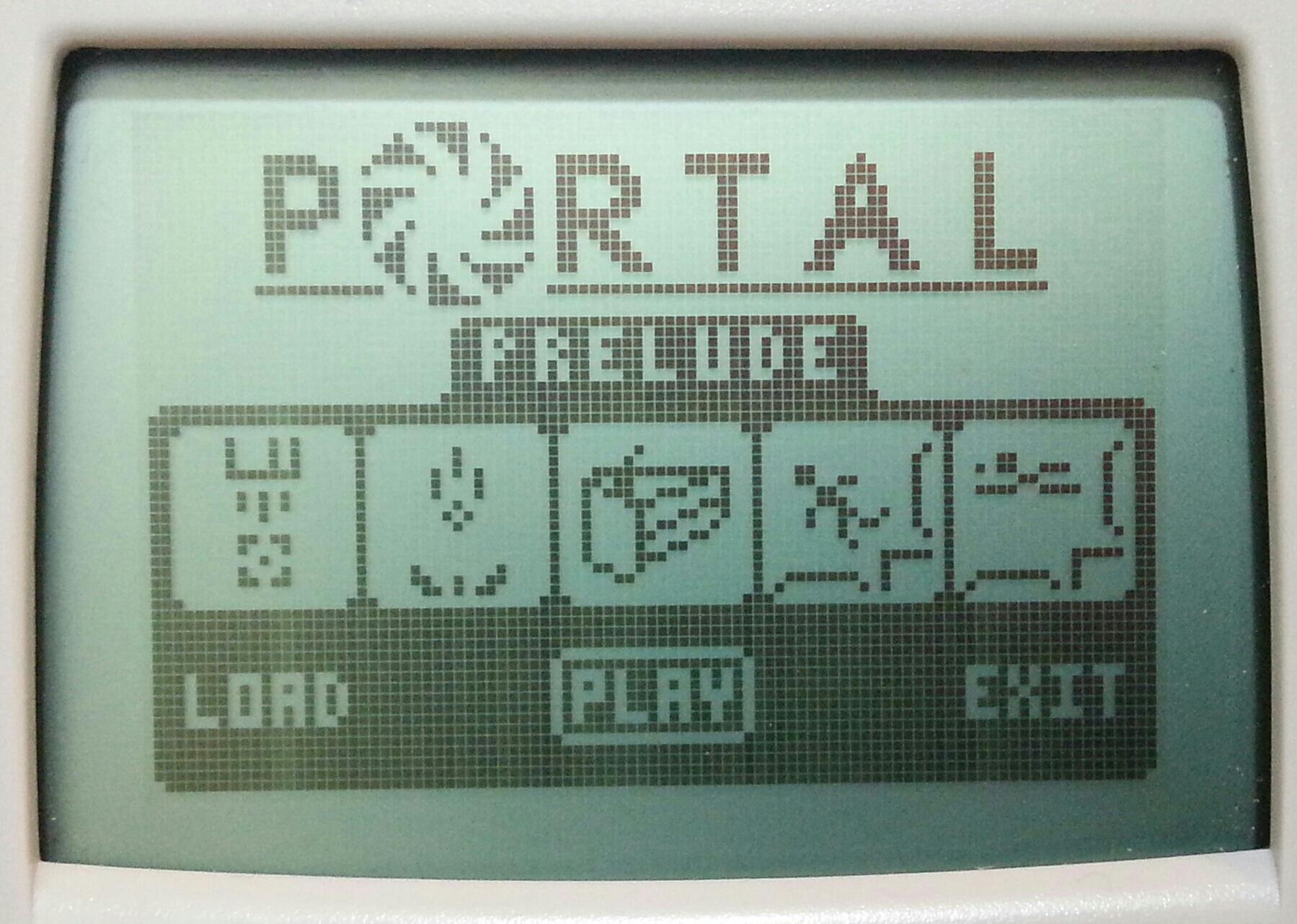 A photo showing a fan-made game, Portal, on a TI-84.